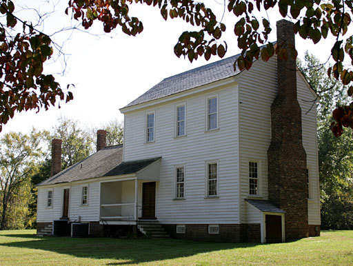 The Bennehan House at the Stagville Plantation, in Durham County, North Carolina. The Bennehan House was built 1787, with a large addition in 1799.